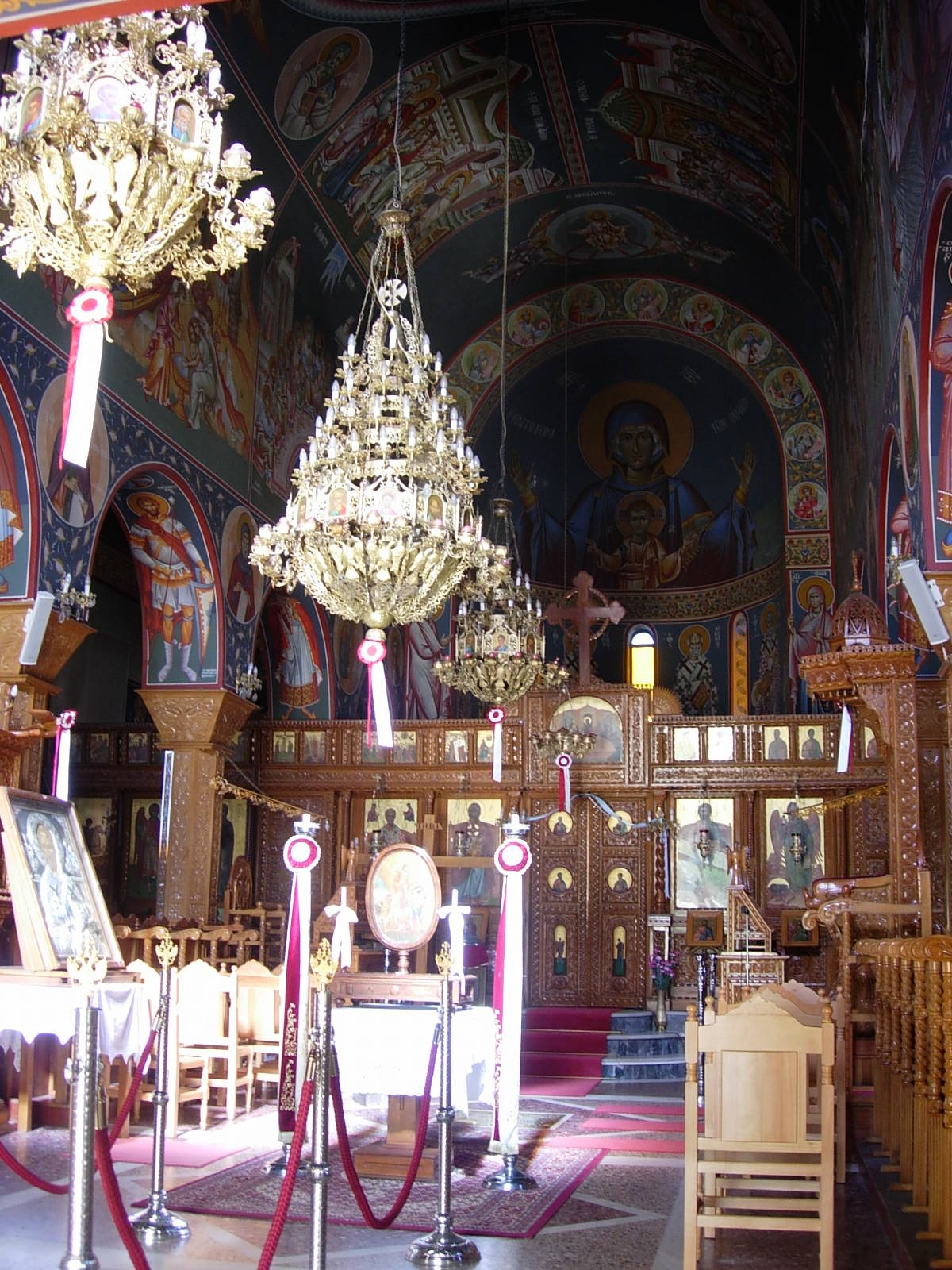 This is probably the main church or at least the largest in Parga. It's located right in the centre of the village by the school.